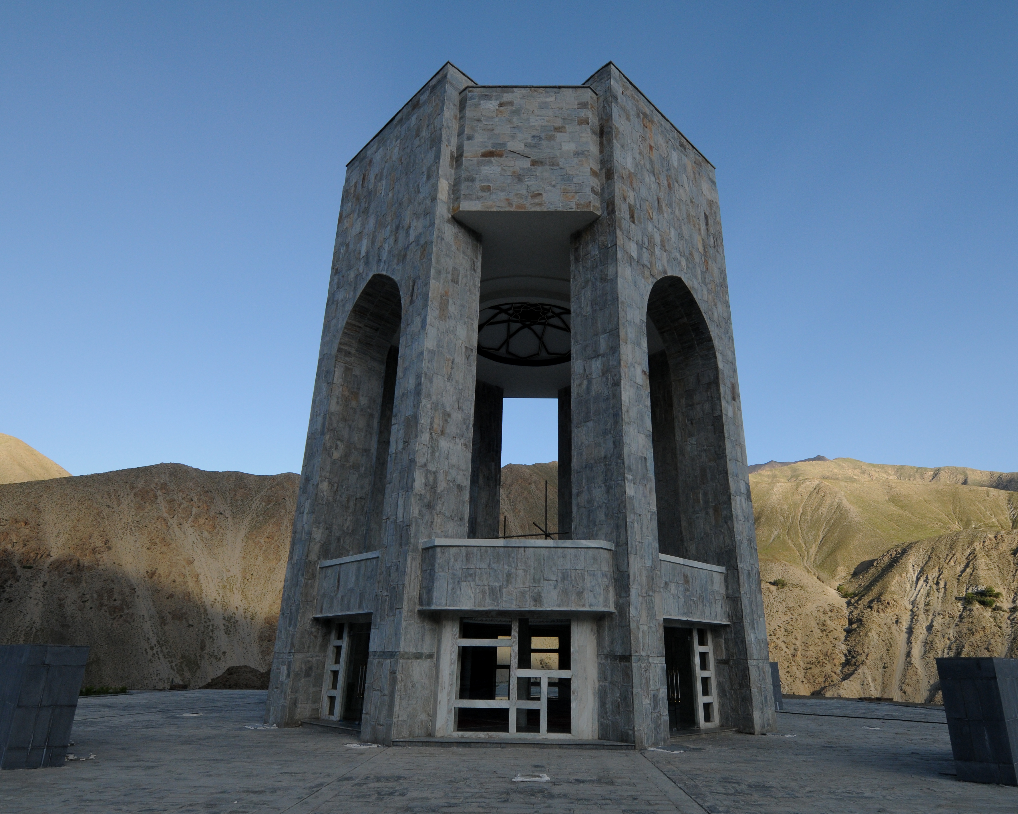 A view of the outside of Ahmad Shah Massoud's Tomb taken May 21, 2011 in Panjshayr province. Massoud was a Kabul University engineering student turned military leader who played a leading role in driving the Soviet army out of Afghanistan, earning him the name "Lion of Panjshayr." His followers call him Amir Sahib-e Shahid which means our beloved martyred commander. Massoud was assassinated in Takhar province two days prior to the September 11, 2001 terrorist attacks in the United States. (Photo ID: 406786)